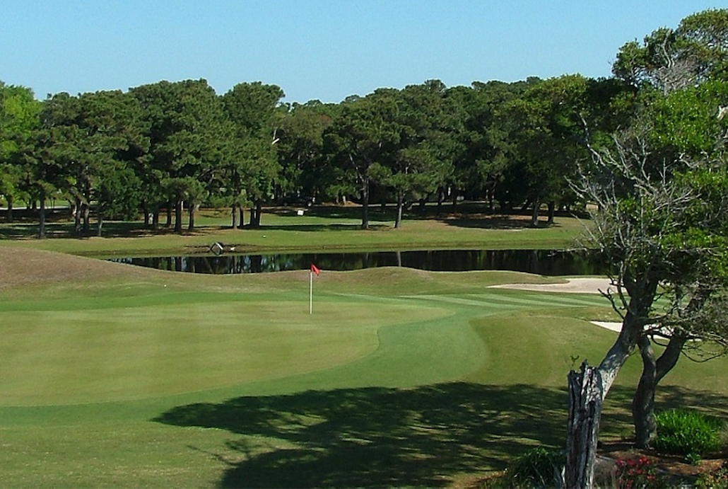 Cropped/enhanced version of Wikimedia File: Oak Island Golf Club 18th Hole.jpg